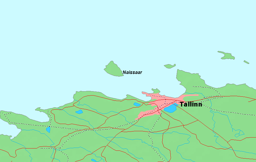 Map: Location of Naissaar. Designed with mapserver demis.